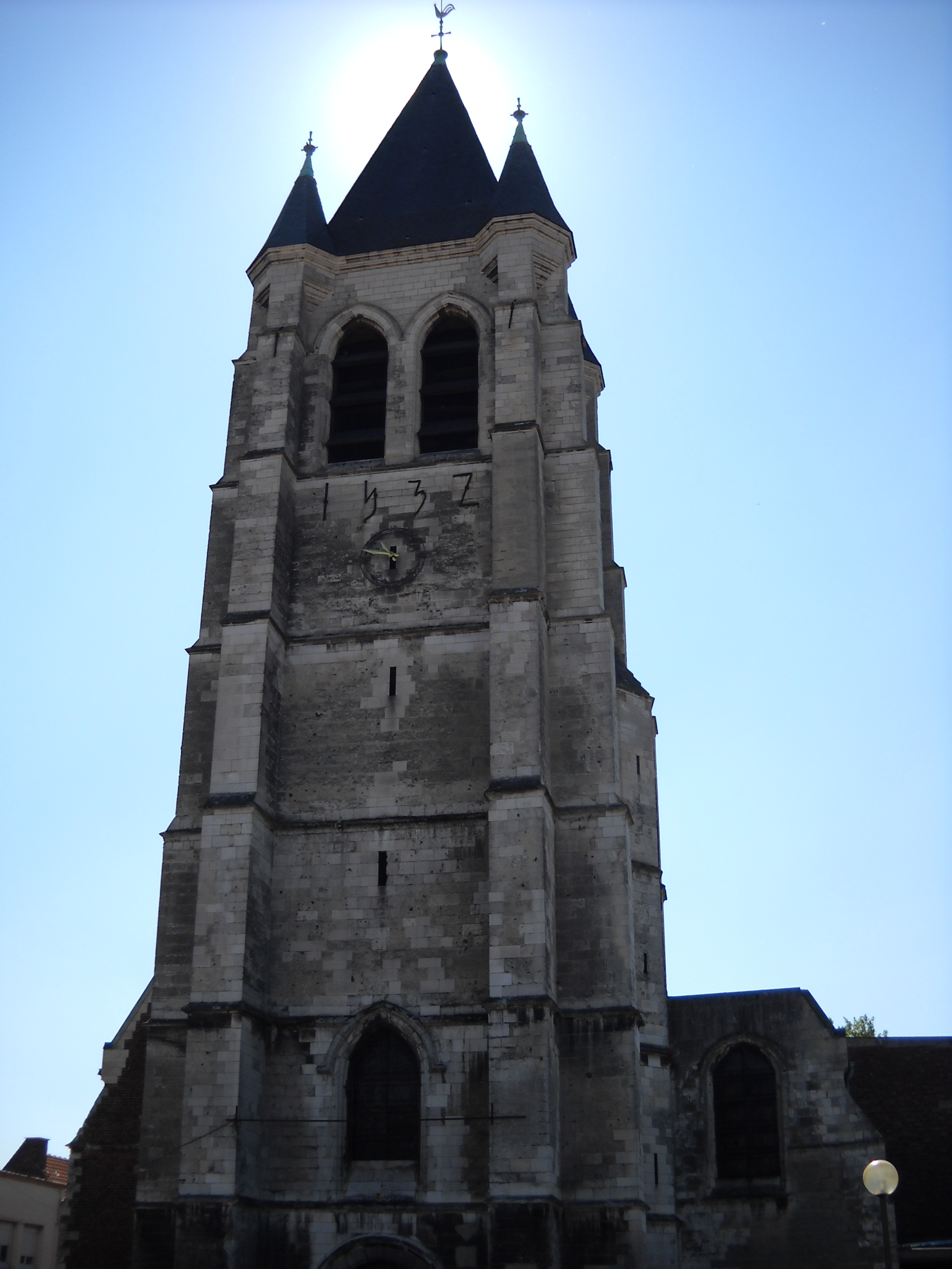 St.Piat's church, in Courrières, Pas-de-Calais, France.